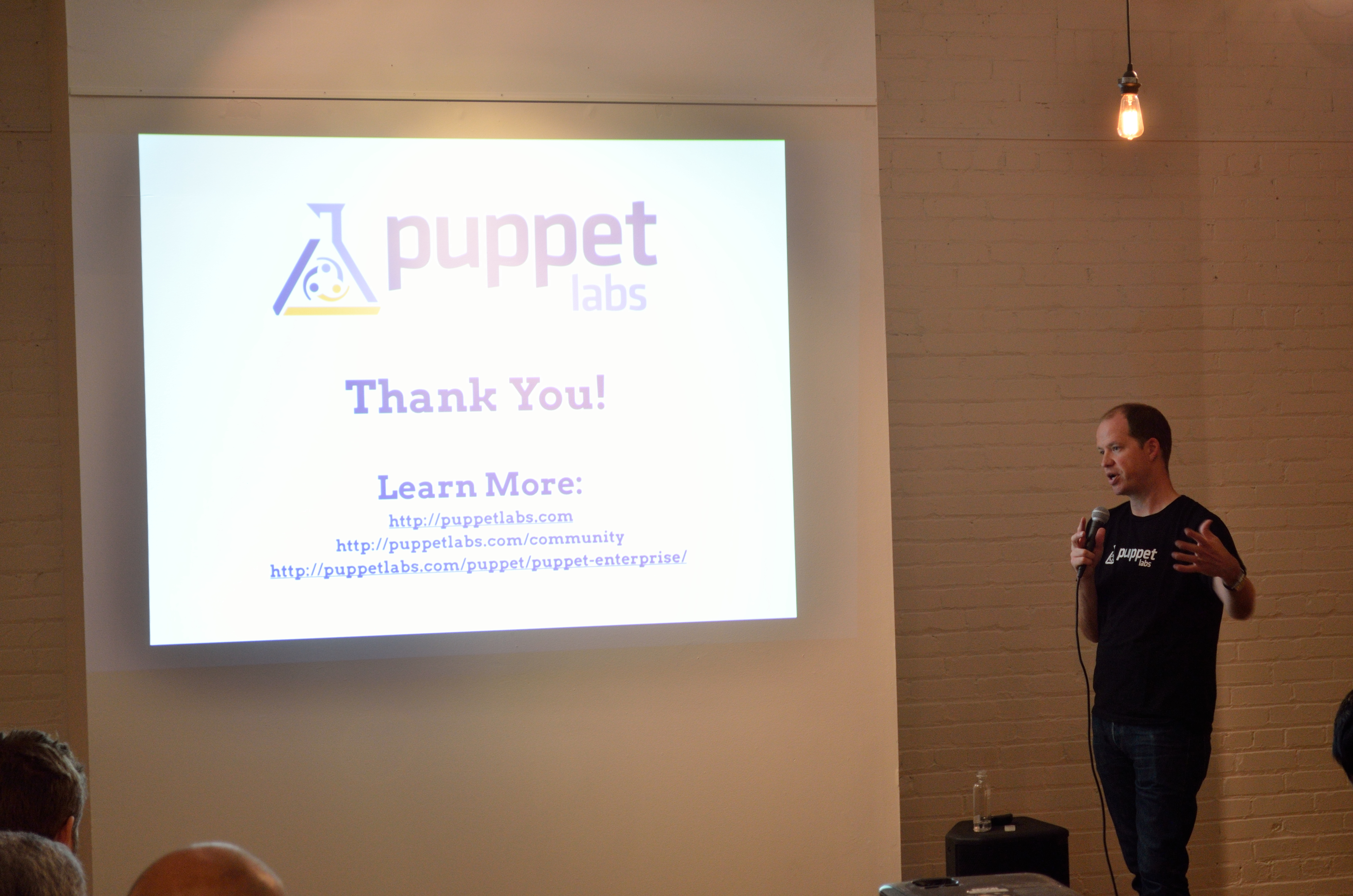 Puppet Labs CEO Luke Kanies giving a talk about Puppet Enterprise.